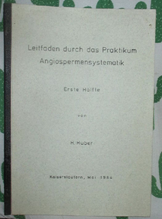 a typewrited issue Dr Herbert Hubert Leitfaden durch das Praktikum Angiospermensystematik. Kaiserlautern May 1984